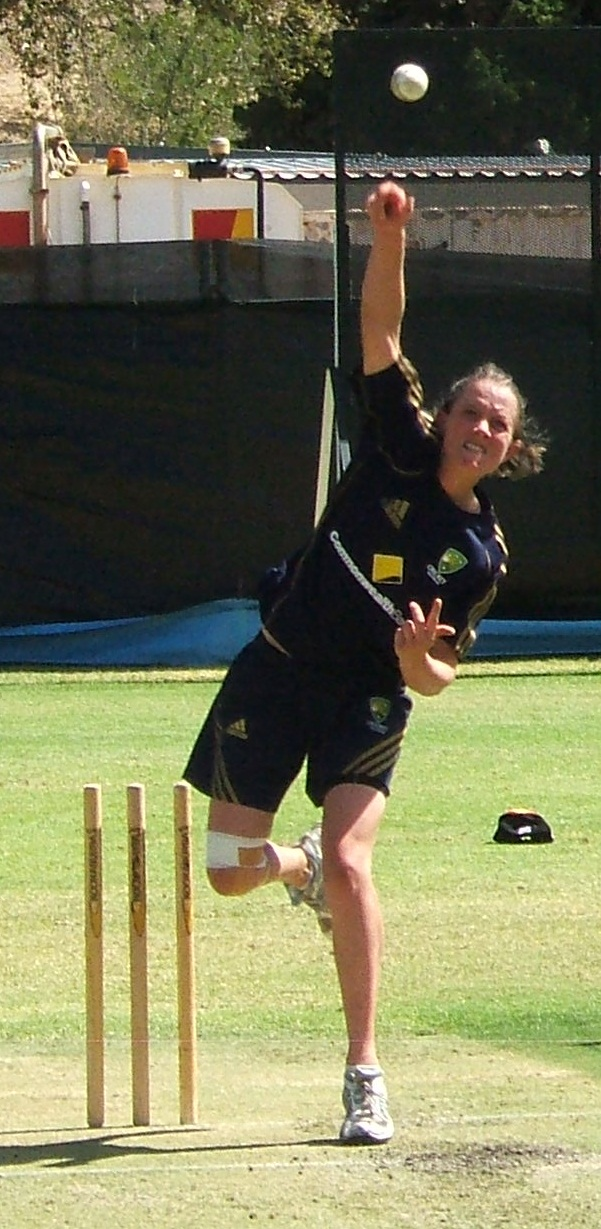 Named person engaging in named action at Adelaide Oval nets/training ground